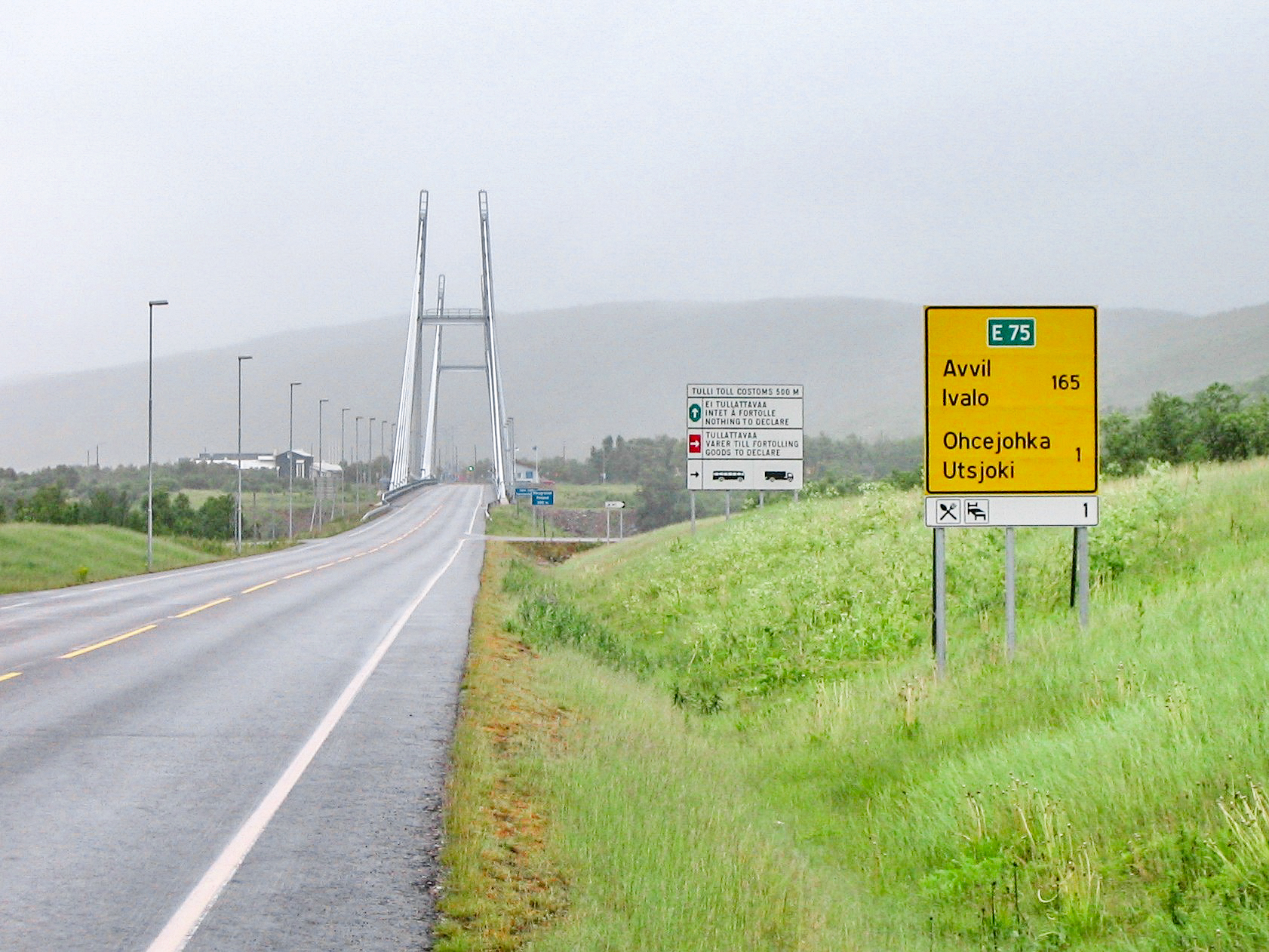 European route E75 and Sami Bridge at the Finnish–Norwegian border. The picture has been taken from the Norwegian side of the border.